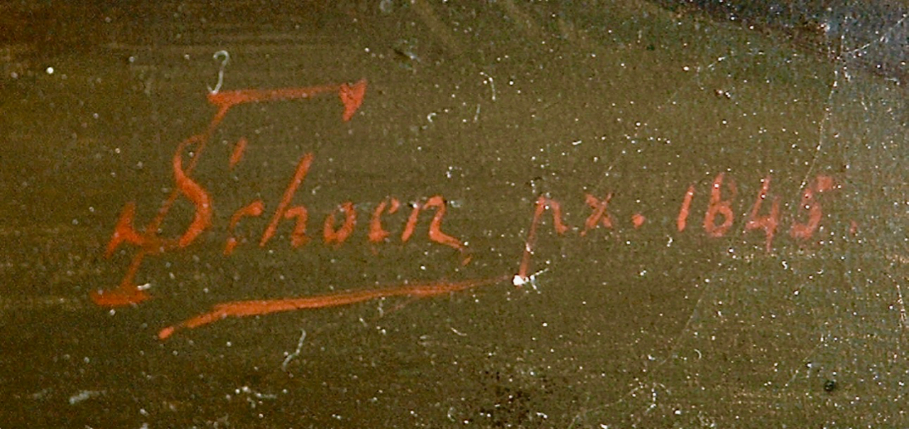 Signature Friedrich Wilhelm Schoen (1810-1868); example